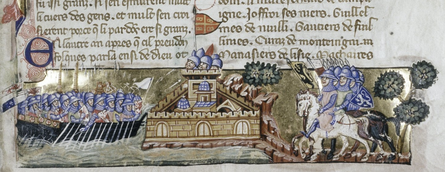 Attack of the Crusaders on Constantinople, miniature in a manuscript of 9 La Conquête de Constantinople by Geoffreoy de Villehardouin, Venetian ms.